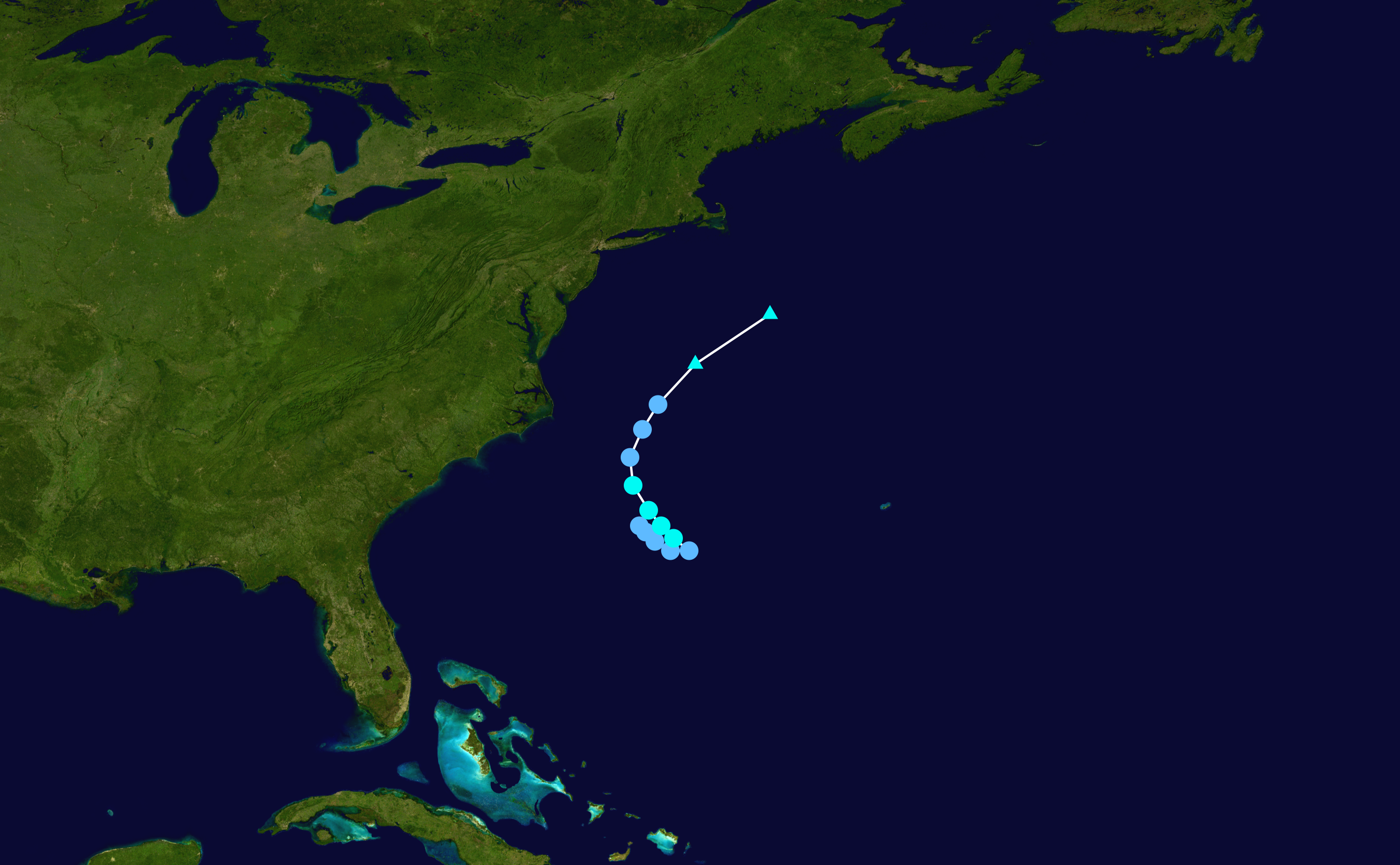 Track map of Tropical Storm Erin of the 2019 Atlantic hurricane season. The points show the location of the storm at 6-hour intervals. The colour represents the storm's maximum sustained wind speeds as classified in the Saffir–Simpson scale (see below), and the shape of the data points represent the nature of the storm, according to the legend below. Saffir–Simpson scale Tropical depression≤38 mph≤62 km/h Category 3111–129 mph178–208 km/h Tropical storm39–73 mph63–118 km/h Category 4130–156 mph209–251 km/h Category 174–95 mph119–153 km/h Category 5≥157 mph≥252 km/h Category 296–110 mph154–177 km/h Unknown Storm type Tropical cyclone Subtropical cyclone Extratropical cyclone / Remnant low / Tropical disturbance / Monsoon depression